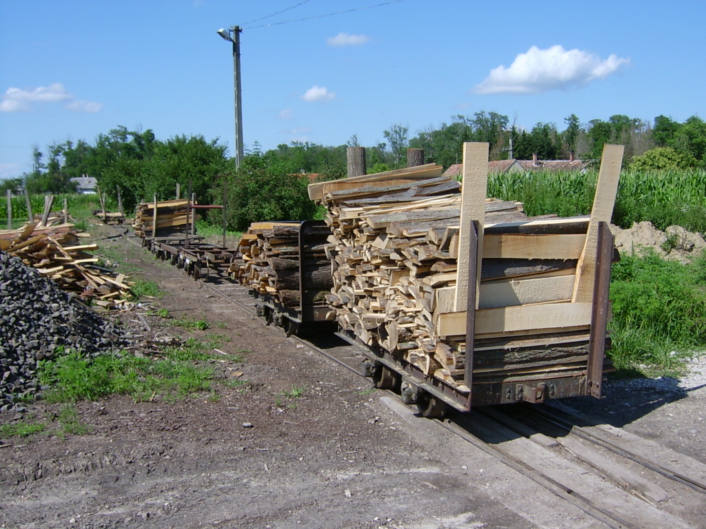 Small narrow gauge freight cars in the Forest Raunway of Mesztegnyő, Hungary.